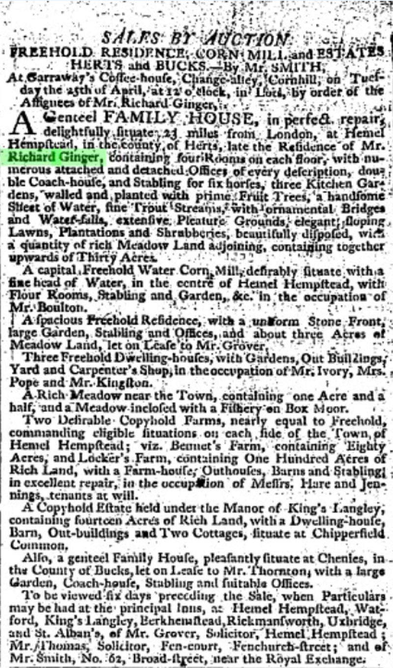 Advertisement for the sale of "The Bury" Hemel Hampstead, 1797